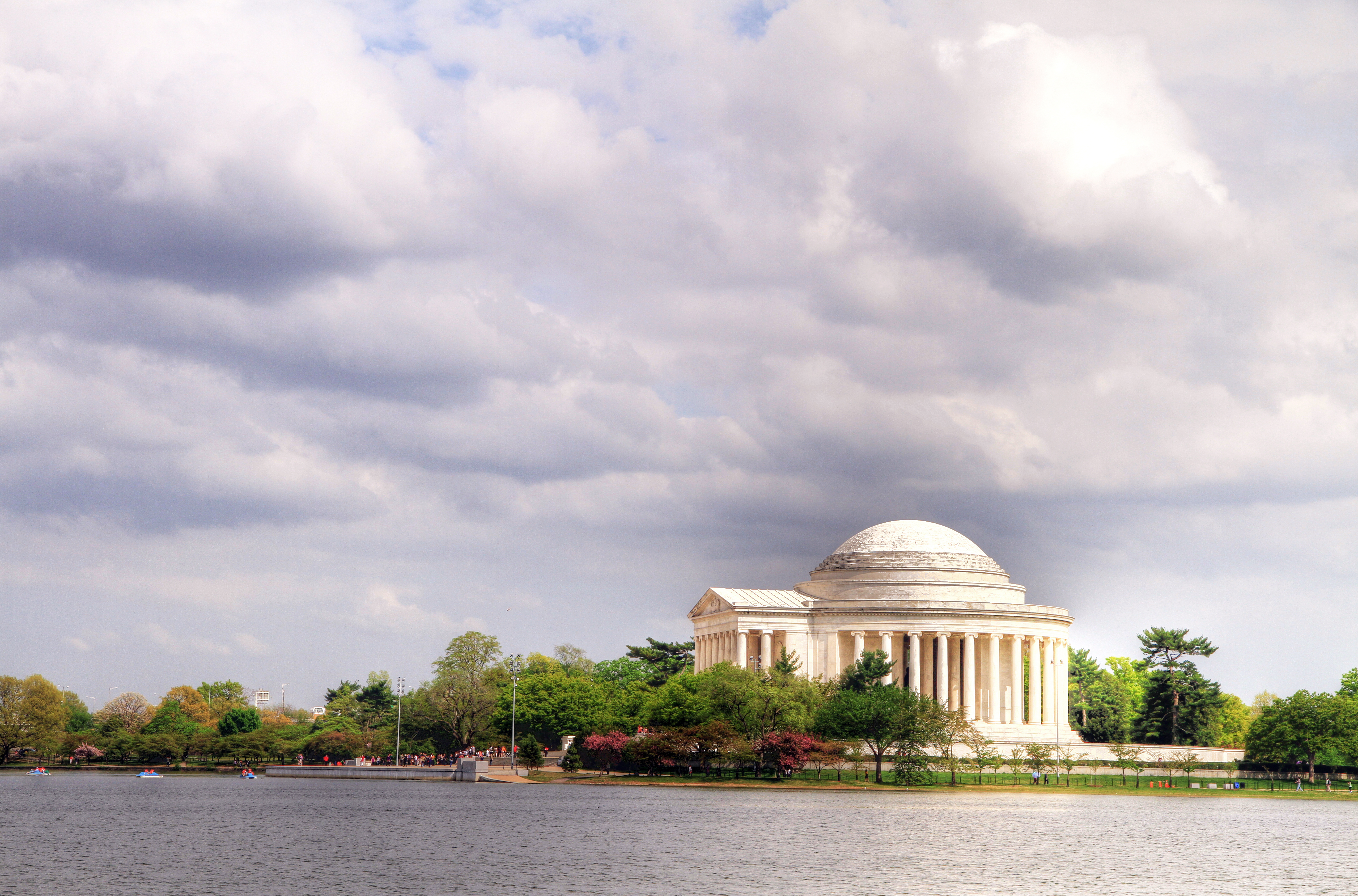 Thomas Jefferson Memorial